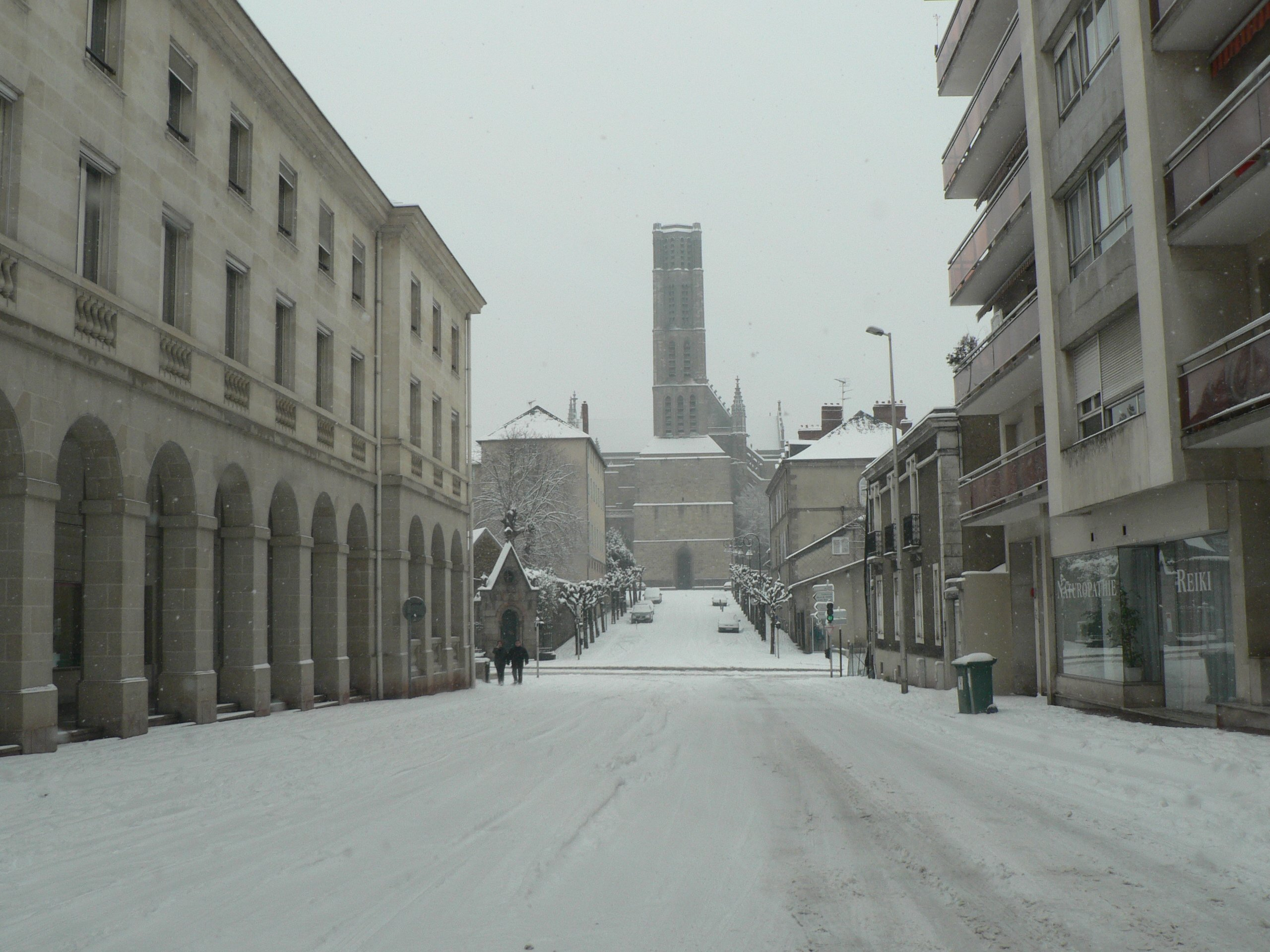 Limoges (Haute-Vienne, Limousin, France) : Rue de la Cathédrale under the snow.